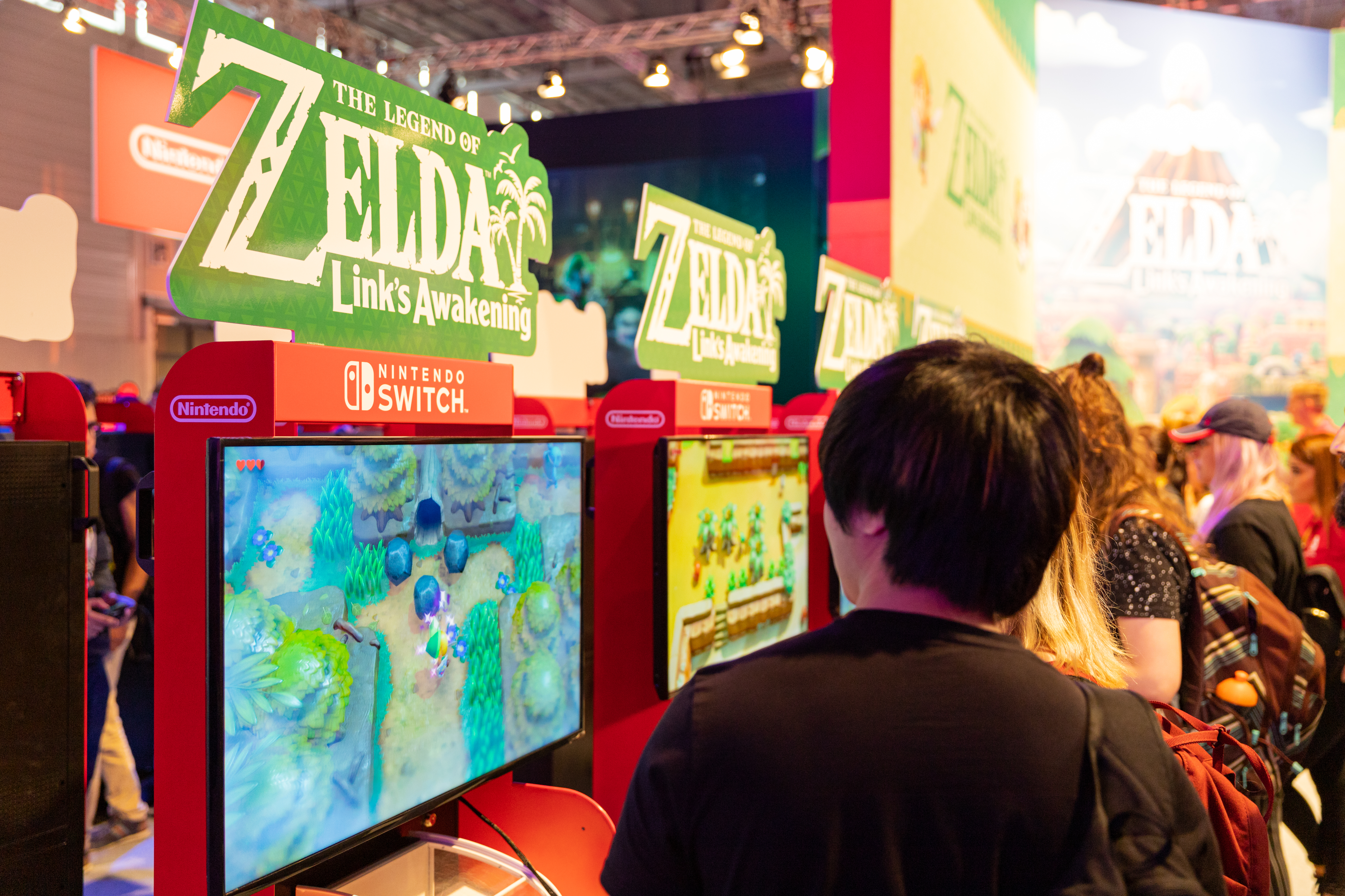 Nintendo Switch Zelda Gamescom Cologne 2019